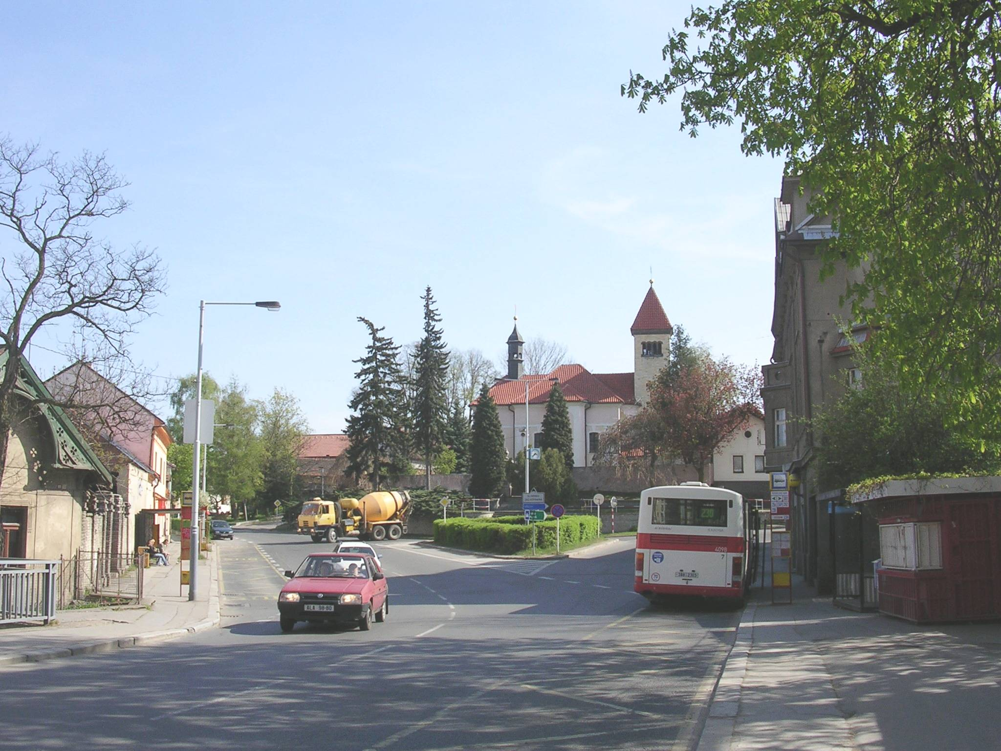 Prague-Řeporyje, the Czech Republic